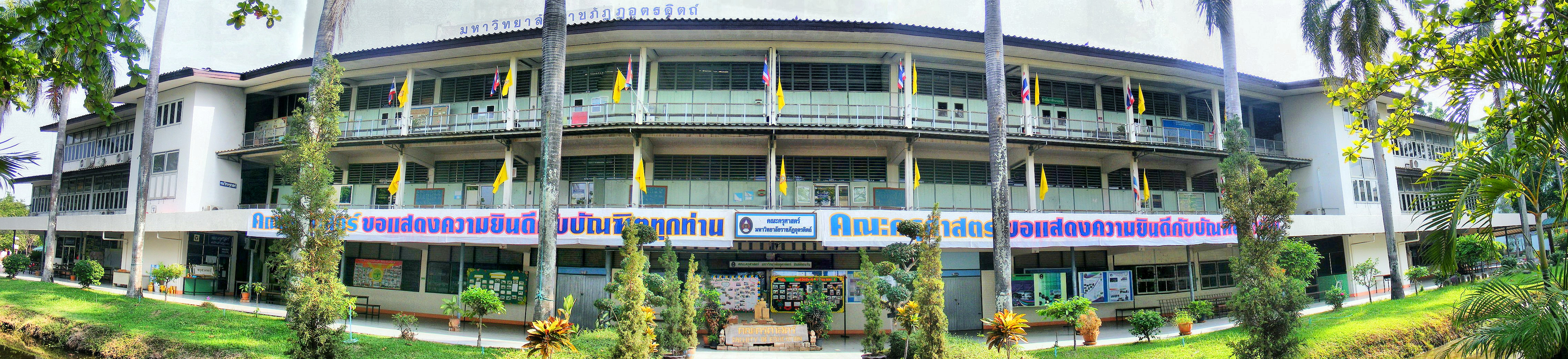 Uttaradit Rajabhat University Location: Uttaradit Rajabhat University Mueang Uttaradit, Uttaradit Province, Thailand.